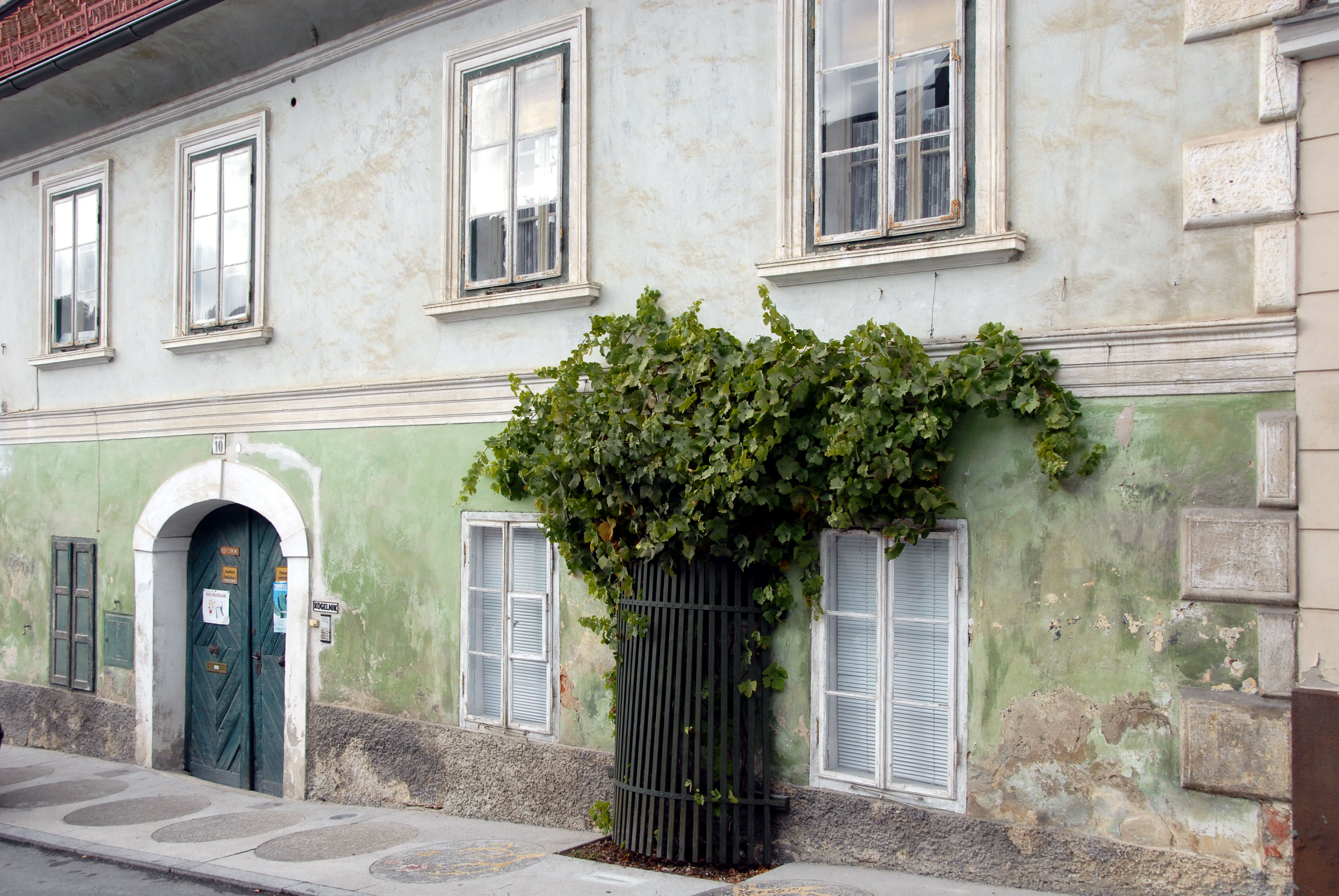 Parents' house of Kiki Kogelnik on 10. Oktober Platz #10, municipality Bleiburg, district Voelkermarkt, Carinthia, Austria, EU